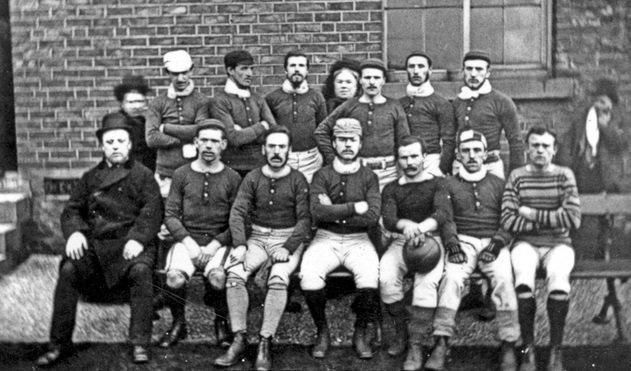 Early photo of a Sheffield F.C. squad